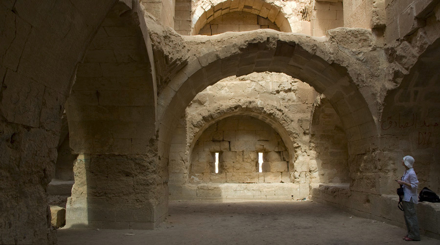 Halabiye Castle